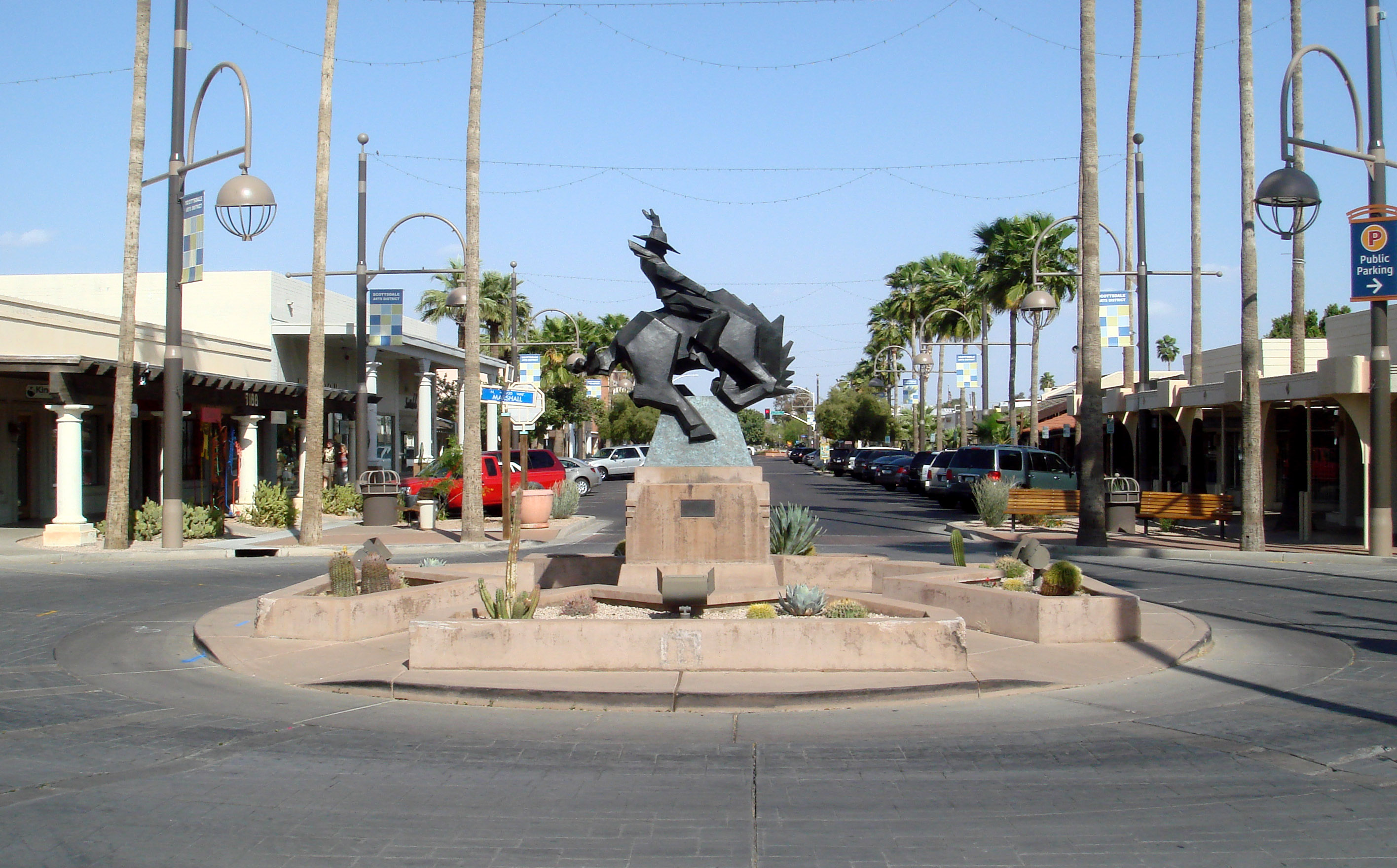 Scottsdale Arts District in Scottsdale, Arizona